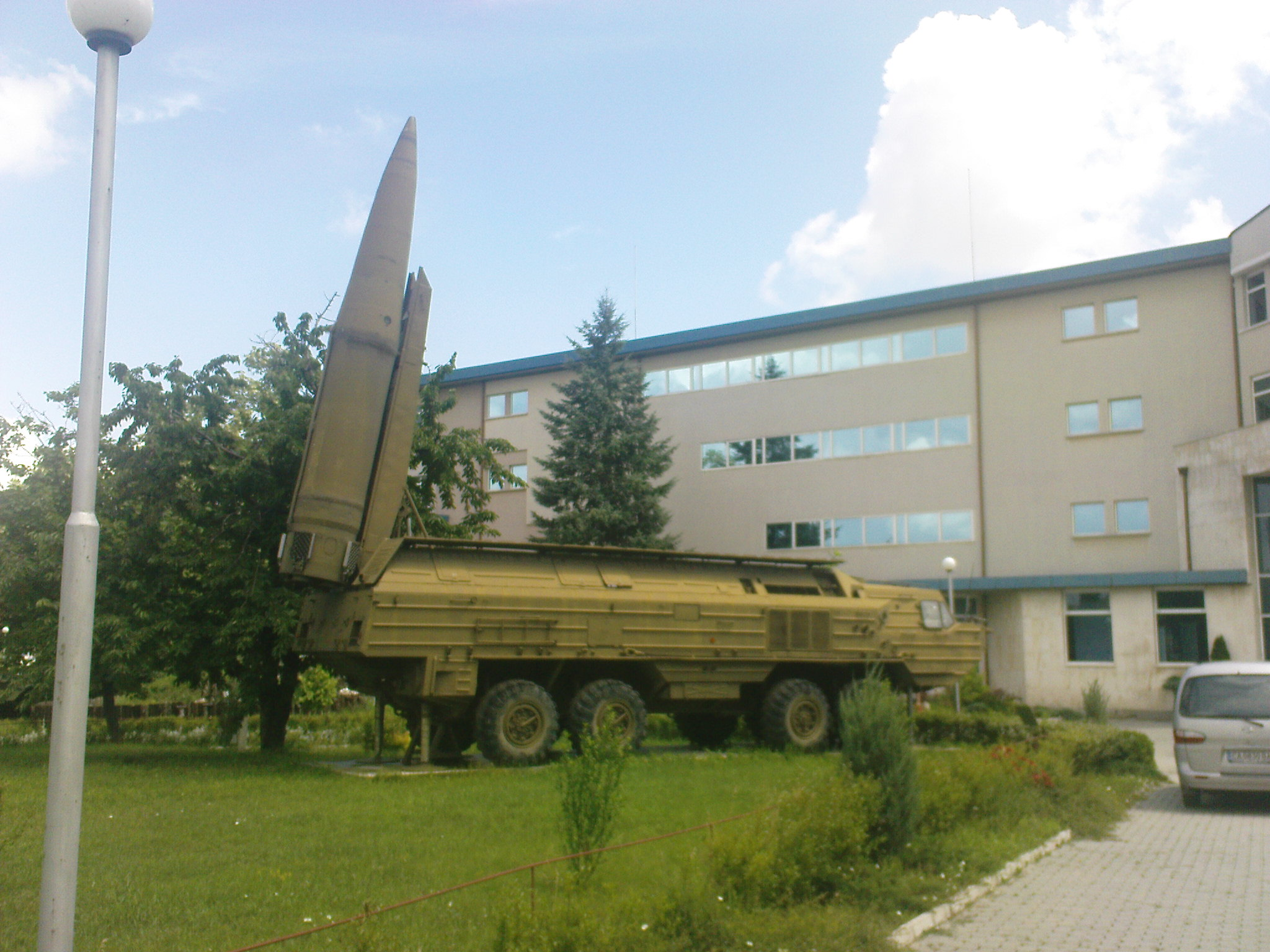 An SS-23 Spider ballistic missile complex in the National Museum of Military History in Sofia